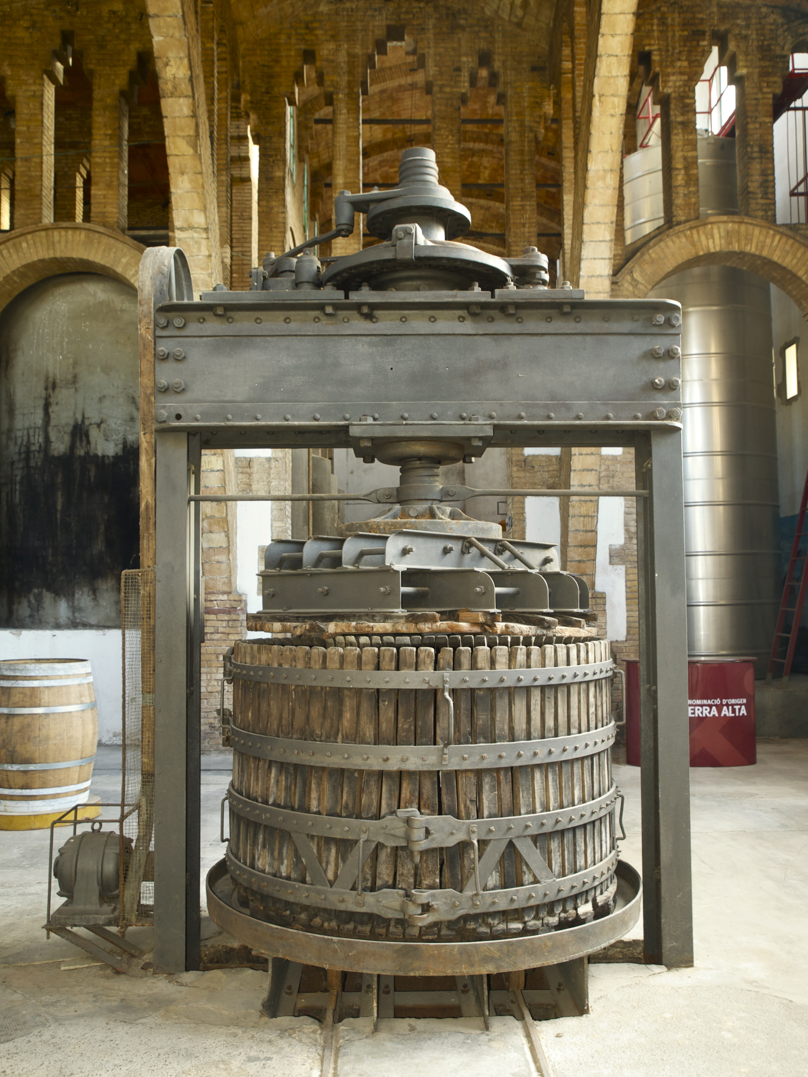 Wine press in Gandesa's winery (Catalonia)